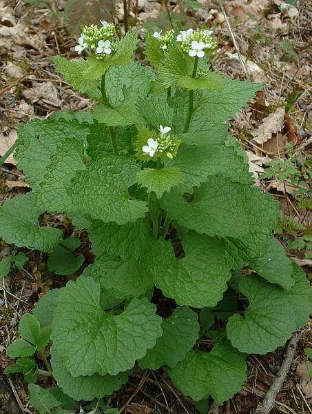 Alliaire officinale, Gy.